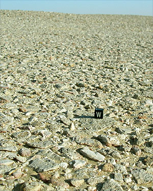 Desert pavement in the Rub' al Khali (close up). Scale cube is 1 cm